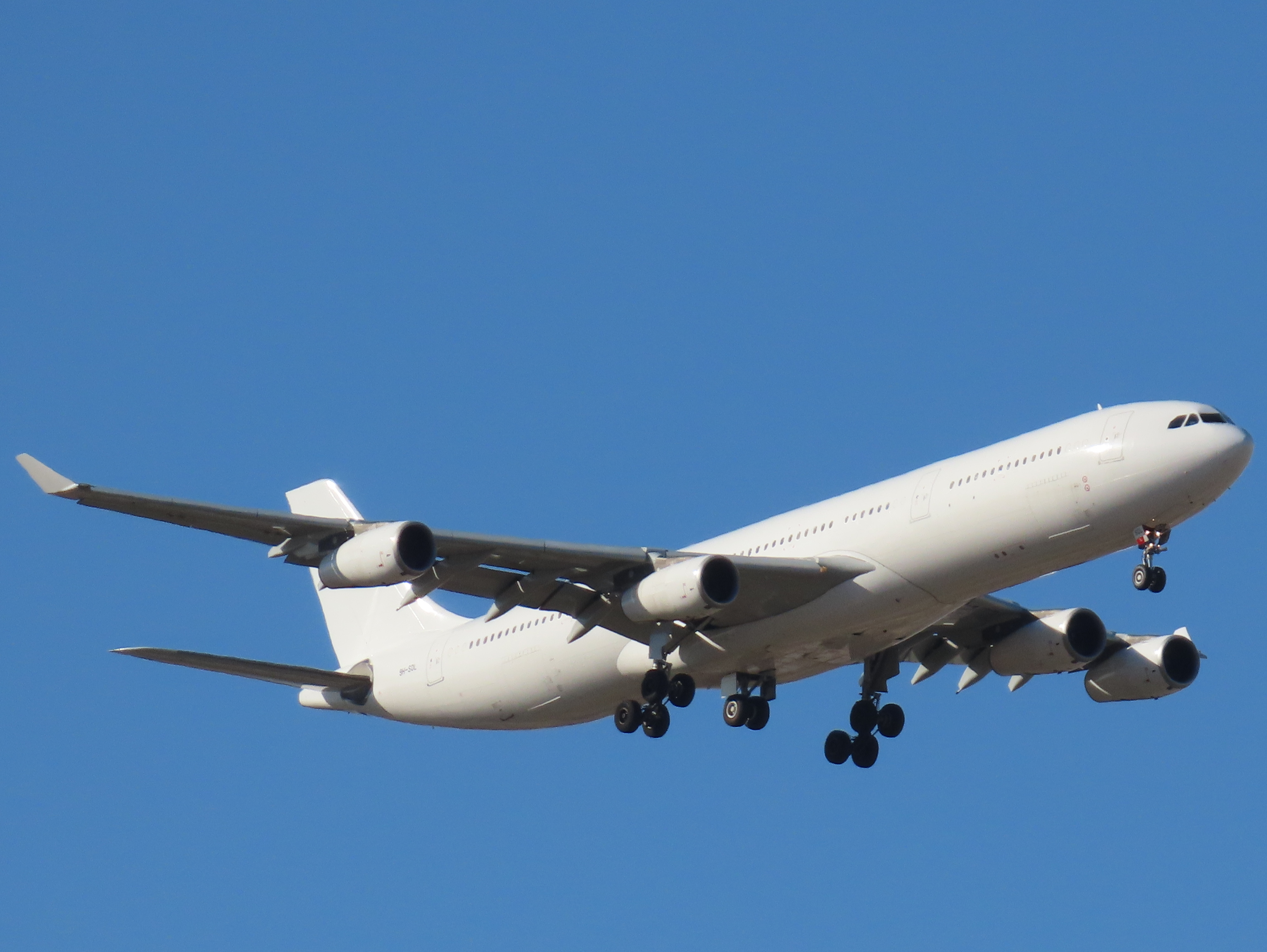 9H-SOL landing at Madrid-Barajas.